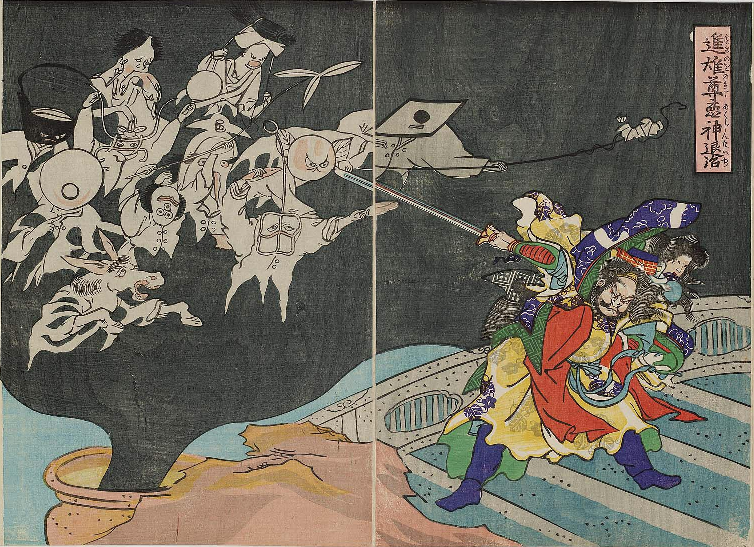 "The God Susanoo no Mikoto Defeats the Evil Spirits" (Susanoo no mikoto akujin taiji, ca. 1868)